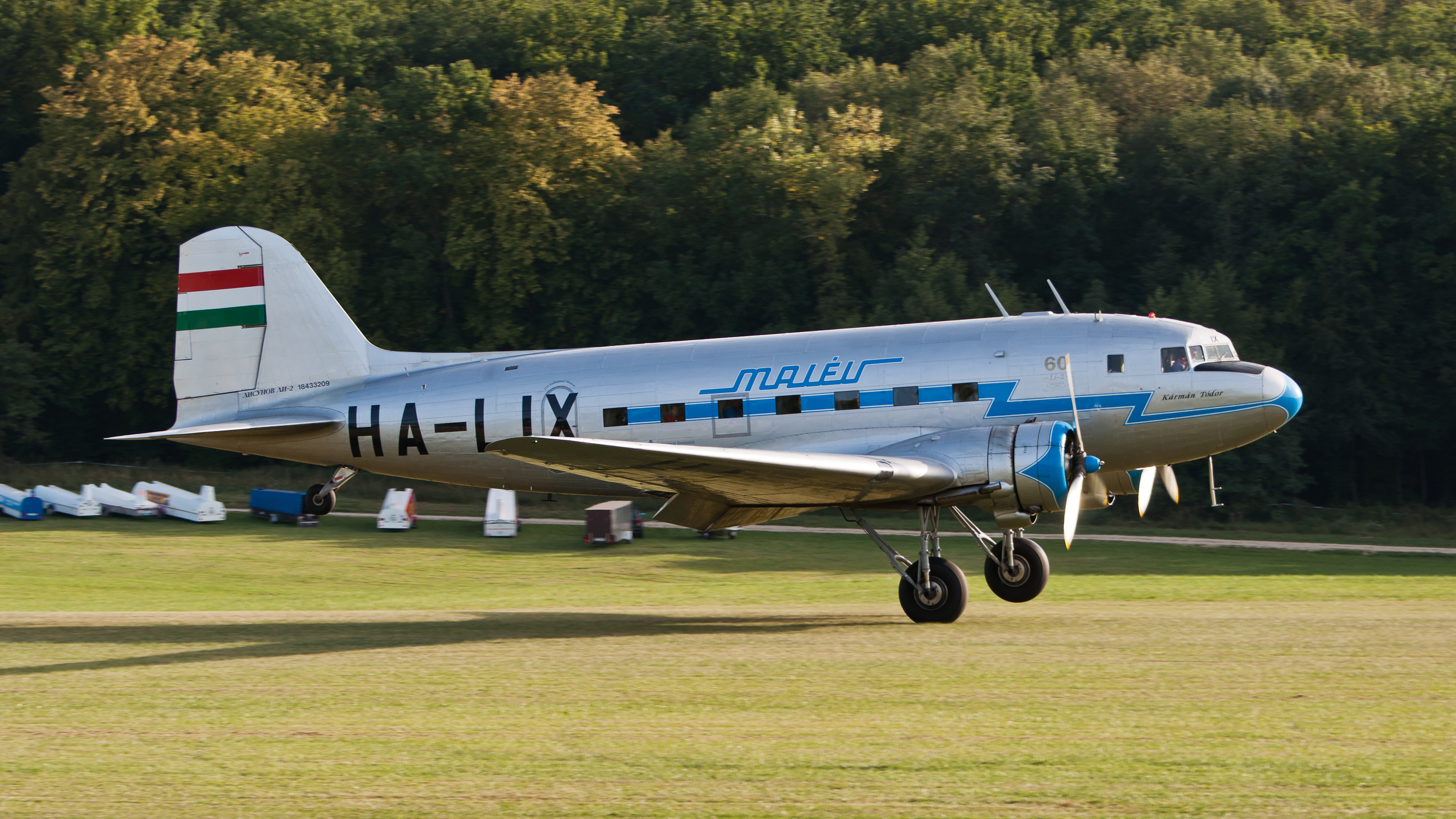 Malev - Hungarian Airlines (Gold Timer Foundation) Lisunov Li-2T (reg. HA-LIX, cn 18433209) at "Oldtimer Fliegertreffen Hahnweide 2011" (EDST).